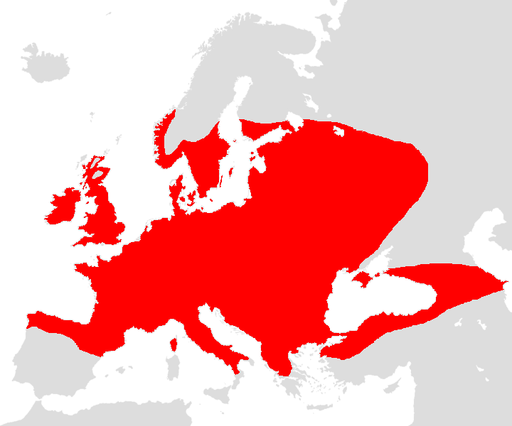 Distribution of Fraxinus excelsior